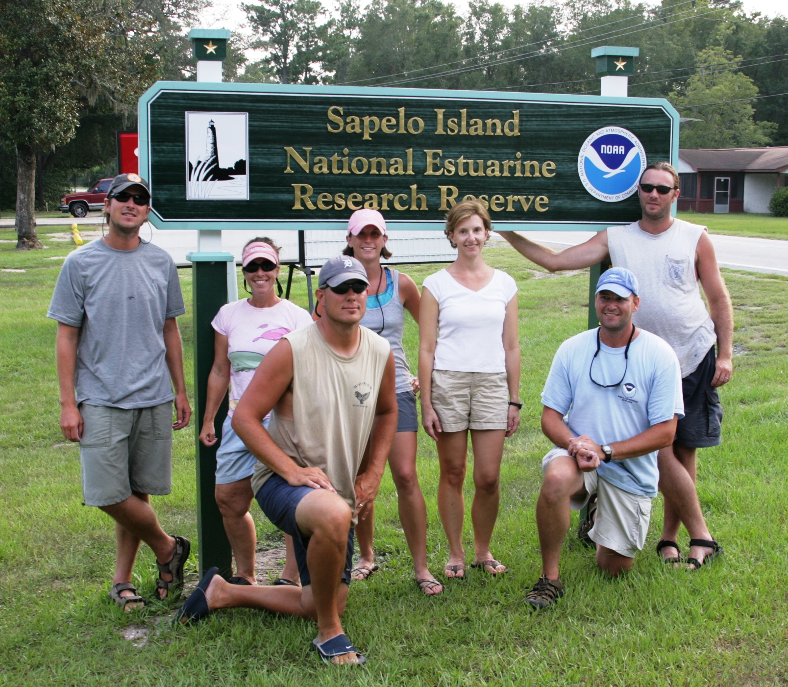 Greetings from the Sapelo Island National Estuarine Research Reserve where NOAA researchers recently conducted dart biopsy sampling of bottlenose dolphins. Samples of dolphin skin and blubber were obtained to determine contaminant concentrations and for genetic analysis. Scientists from both NOS and NMFS line offices and the Georgia Department of Natural Resources participated in the effort to assess the health of a top-level predator in this estuarine reserve, which was established for longterm research, education and coastal stewardship. Pictured (from left): Back row: Todd Speakman, Karen Coomer, Sarah Howlett, Lori Schwacke, J.D. Dubick; Front row: Eric Zolman, Jamison Smith. Not pictured: Barb Zoodsma and Suzanne Lane.